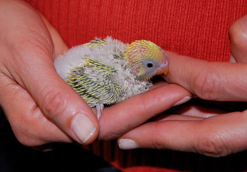 Here is a baby budgie (offspring of Mary Ann and Sutcliffe) hatched Dec 6th, 2007, and taken about three weeks after hatching, by me.